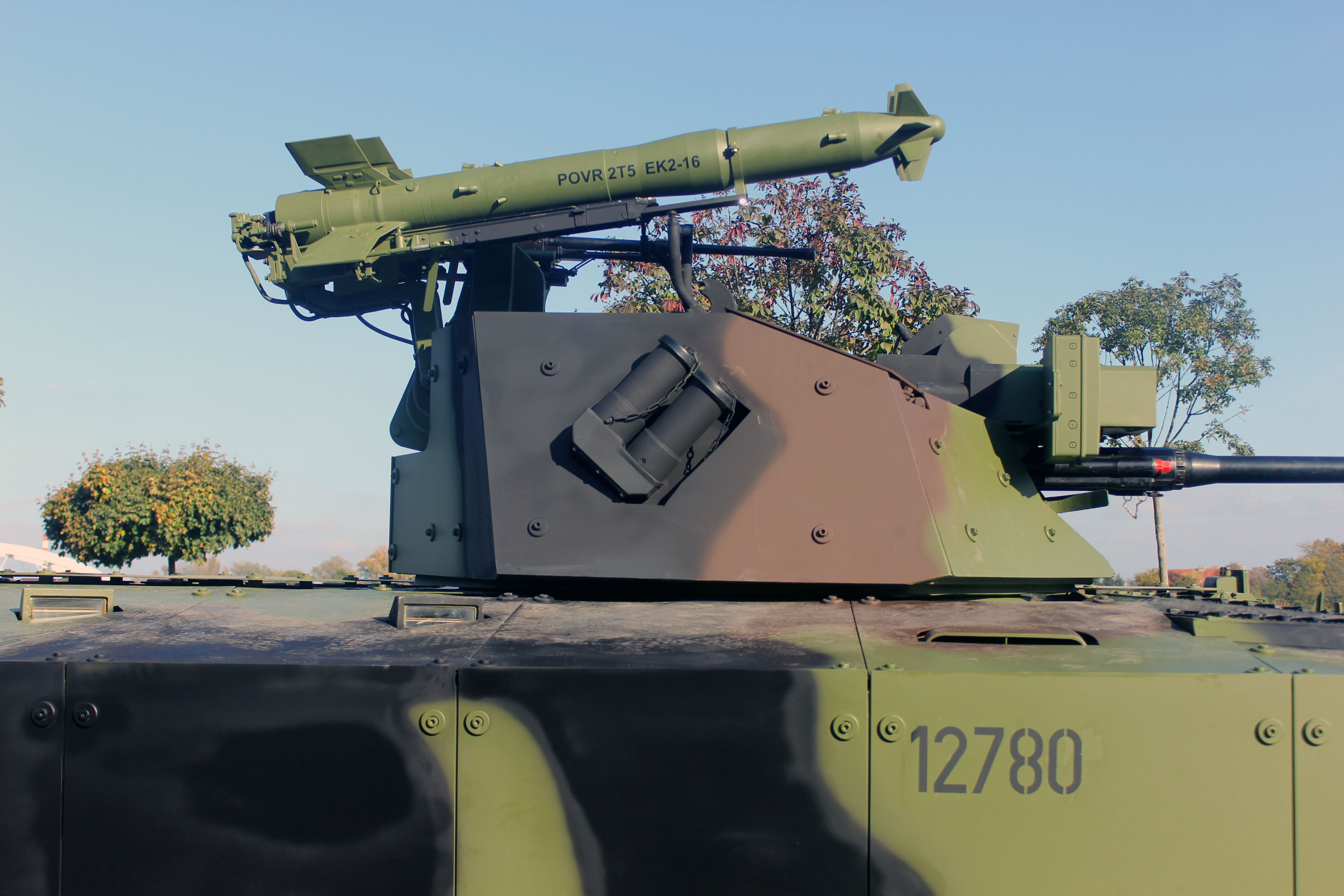 Modernized infantry fighting vehicle BVP M-80A on display at Novi Sad after WW2 liberation parade.